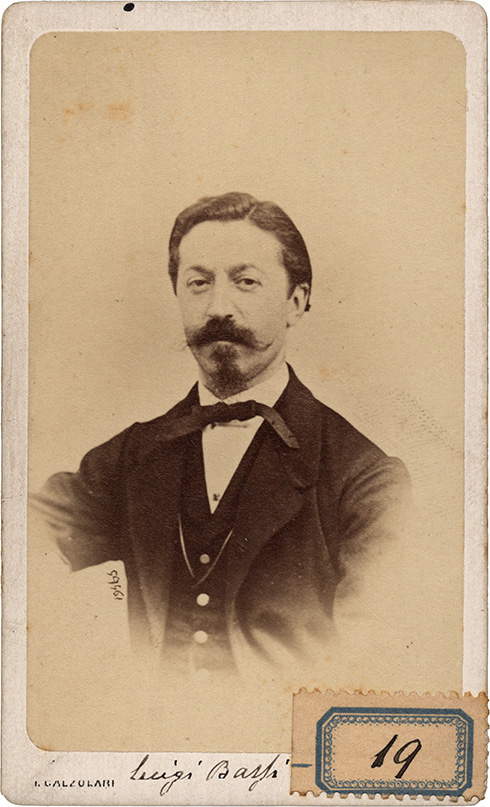 Portrait of Luigi Bassi, composer (1833-1871). Photo by Icilio Calzolari, Milano, before 1871.